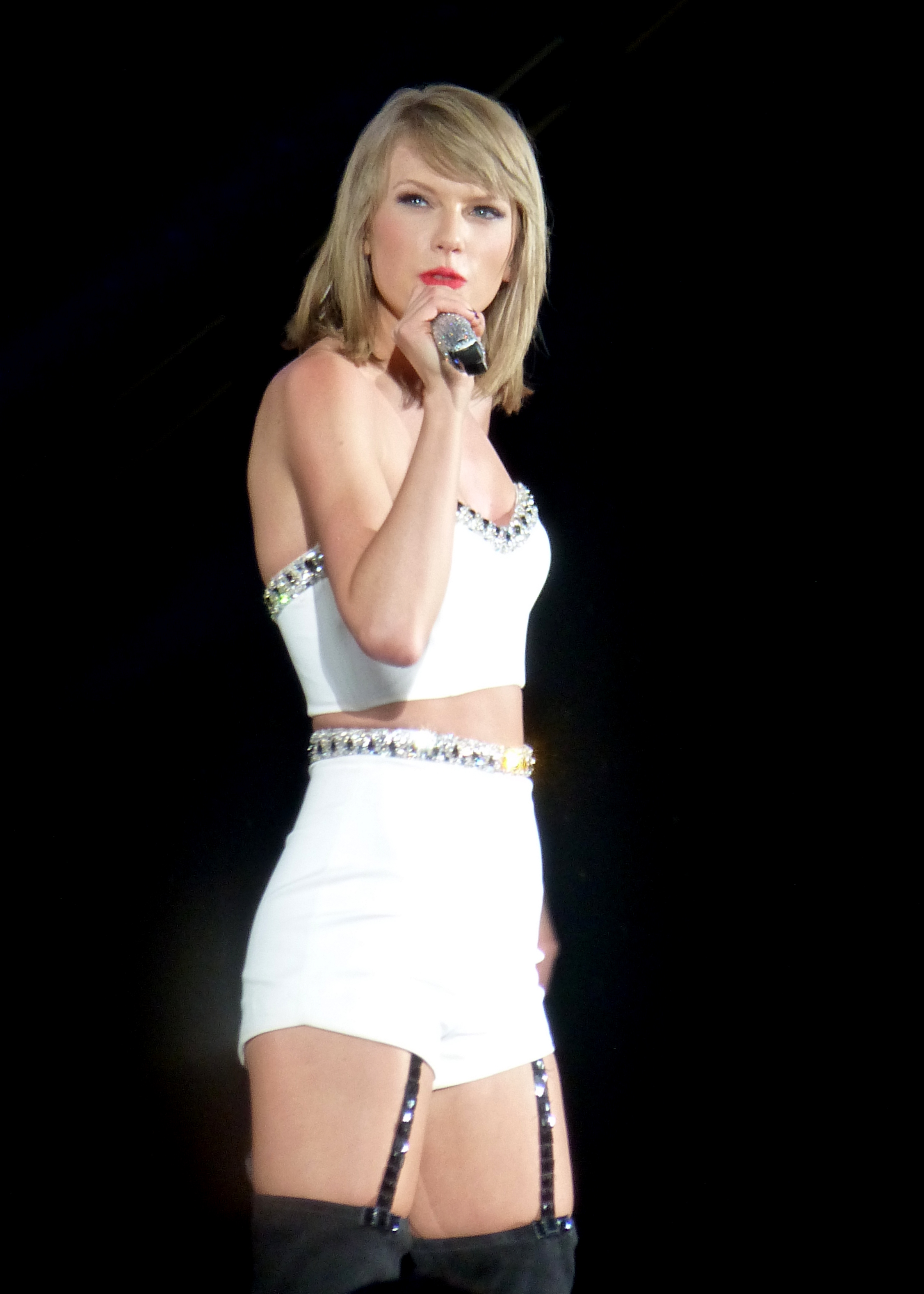 Taylor Swift 1989 Tour at Ford Field in Detroit, 5/30/15